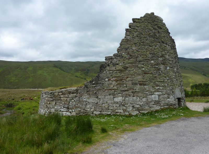 Dun Dornaigil, a broch in Sutherland, Scotland